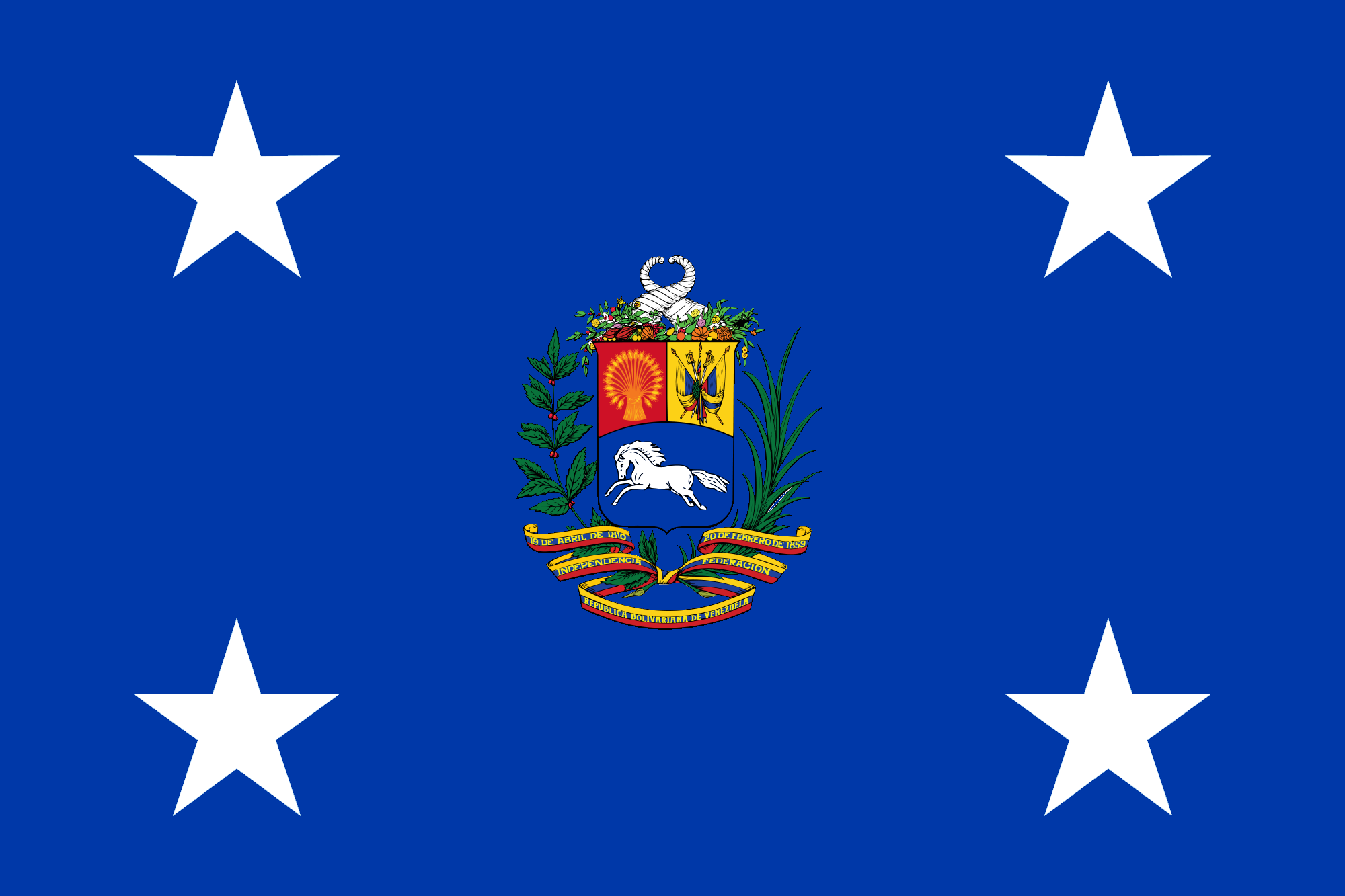 The Standard of the President of Venezuela on sea